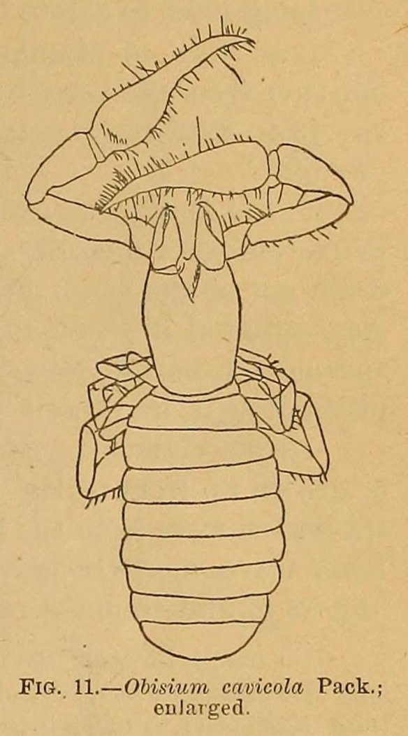 Chitrella cavicola (= Obisium cavicola)